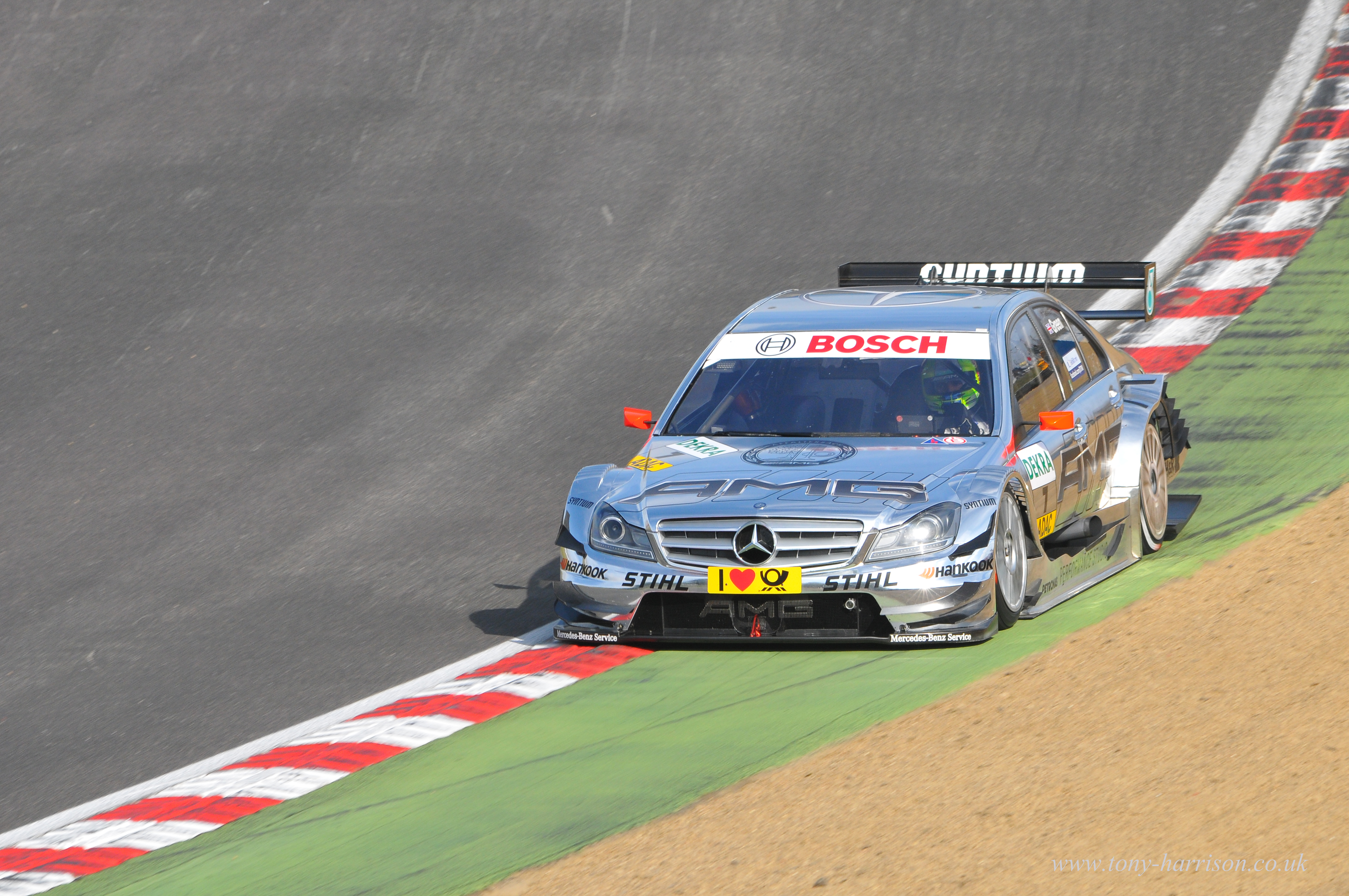 DTM Brands Hatch 2011